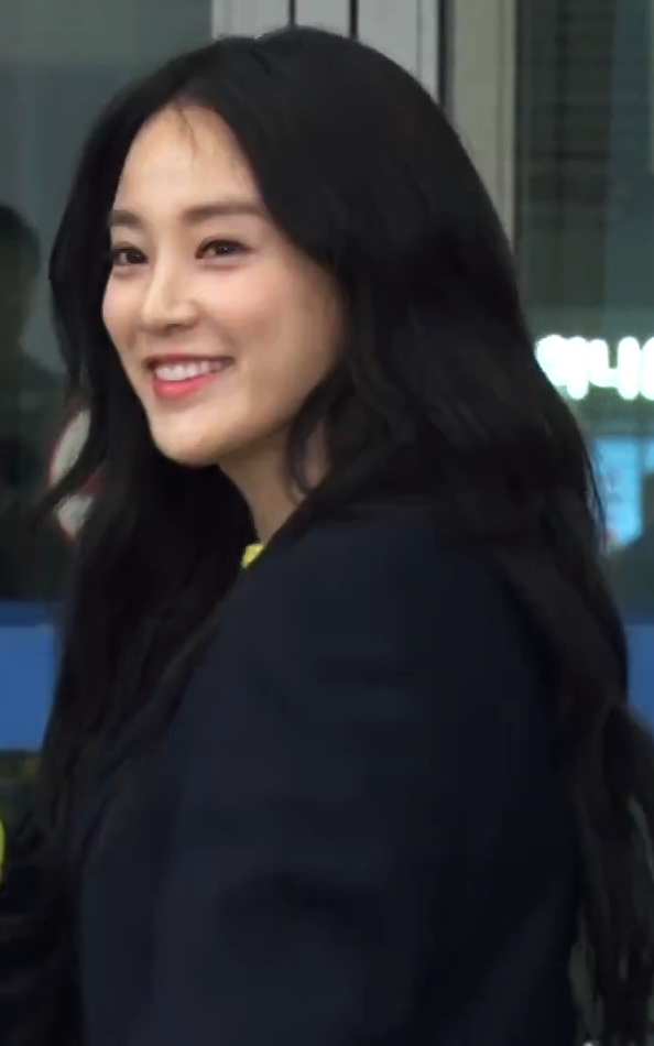 Lee Joo-yeon at Incheon International Airport on April 3, 2018